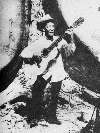 photograph of Sindo Garay with guitar, in front of trunk of huge tropical tree